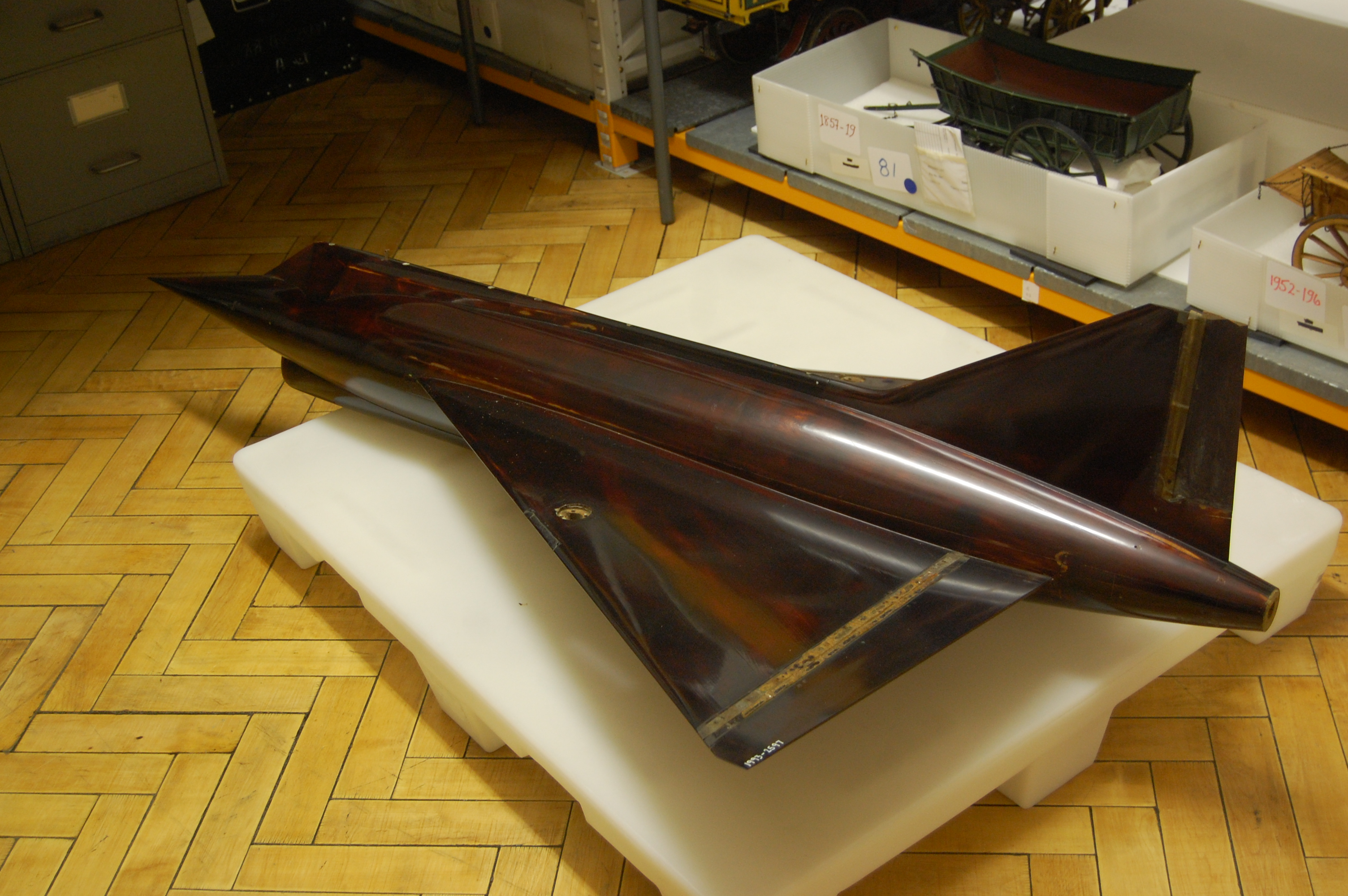 Windtunnel model for the Avro 720 rocket fighter, in the Science Museum's Blythe House, Science Museum small objects store. Accession number 1993-2597.